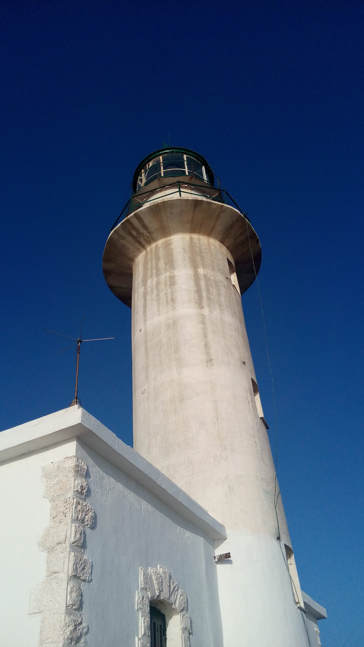 This is a photography of Natura 2000 protected area with ID GR2220005